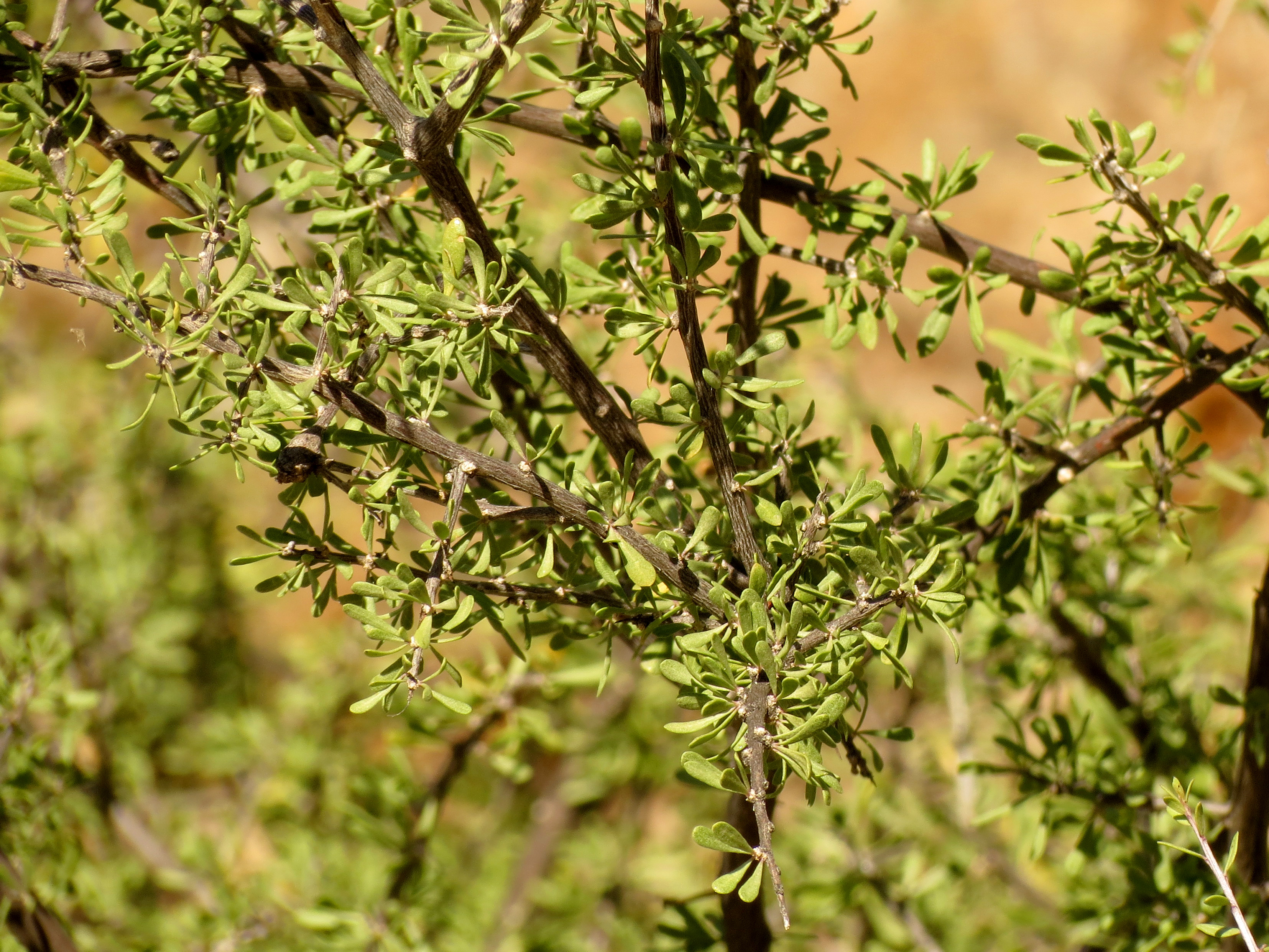 Lycium berlandieri. King Canyon Wash, Tucson Mountains, Saguaro National Park West, Tucson, Arizona, USA.